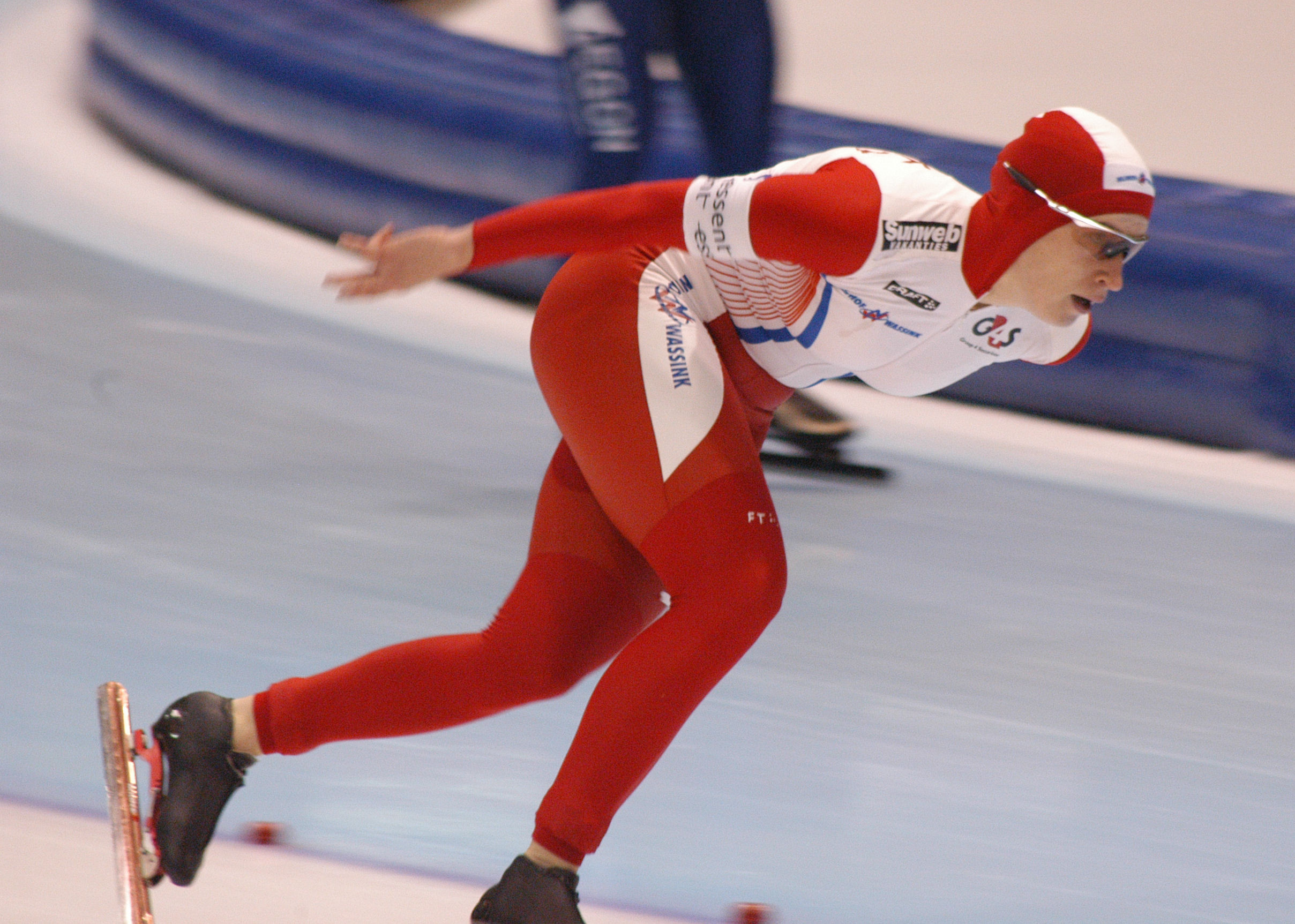 Katarzyna Wójcicka [now: Katarzyna Bachleda-Curuś] (POL) in action at a World Cup Speedskating in Heerenveen, the Netherlands.